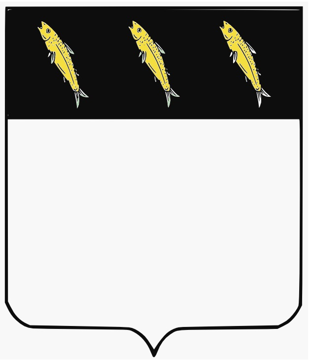 Coats of arms of the House of Volden